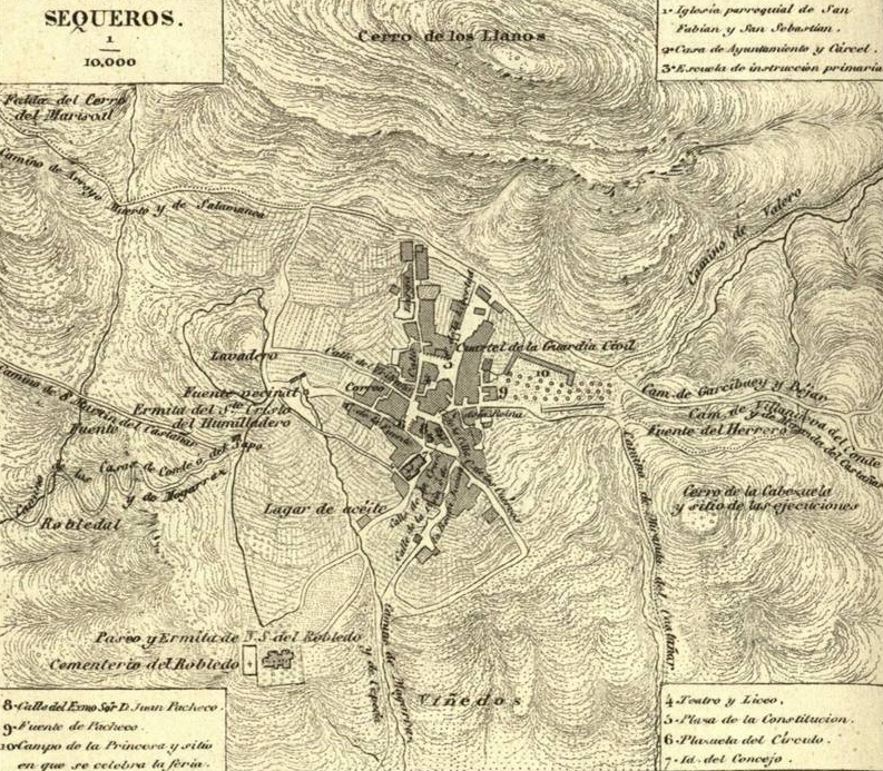 Map of Sequeros cropped from the 1867 province of Salamanca map by Francisco Coello